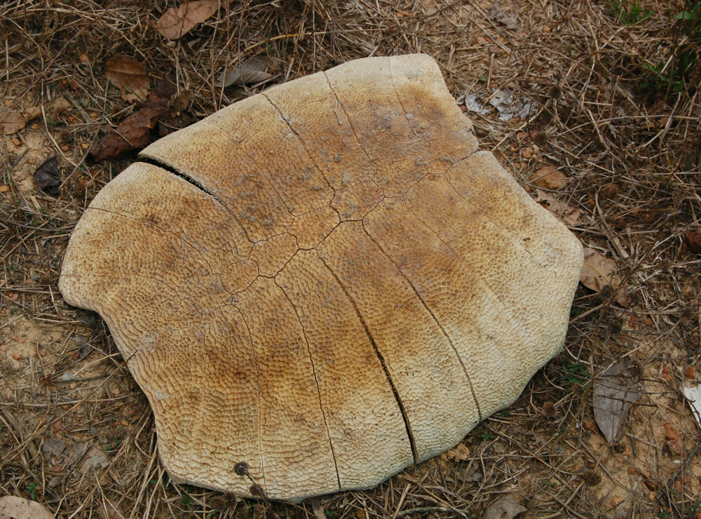 Amyda cartilaginea carapace inner shell, ca. 33 cm diameter. From Mentaya Hulu, Central Kalimantan, Indonesia.